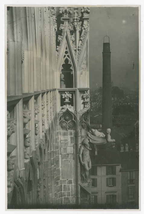 this photo shot around 1900 by photograper Lissoni depicts the Duomo (cathedral) of Milano and shows the chimney of the Santa Radegonda power station the Photo is preserved at the Civico Archivio Fotografico di Milano and avilable on the Internet